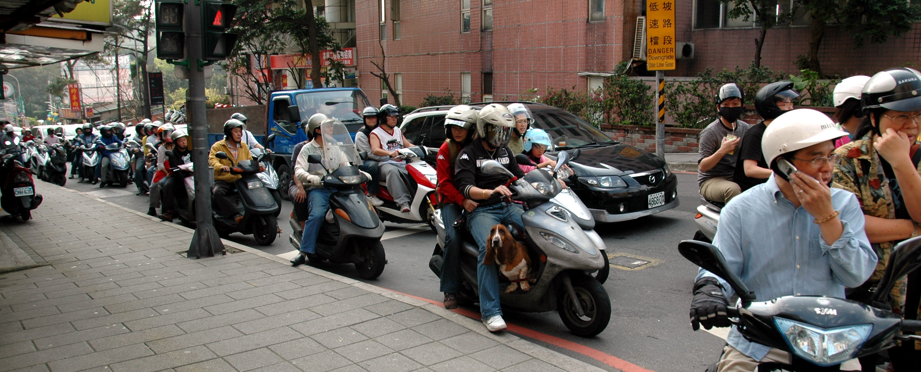 Scooters in Taiwan